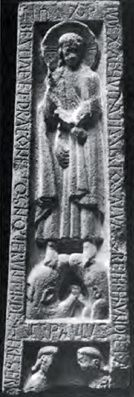 Captioned as "Fig. 13a Ruthwell Cross, North Face, Figure of Christ (From the Burlington Magazine)."